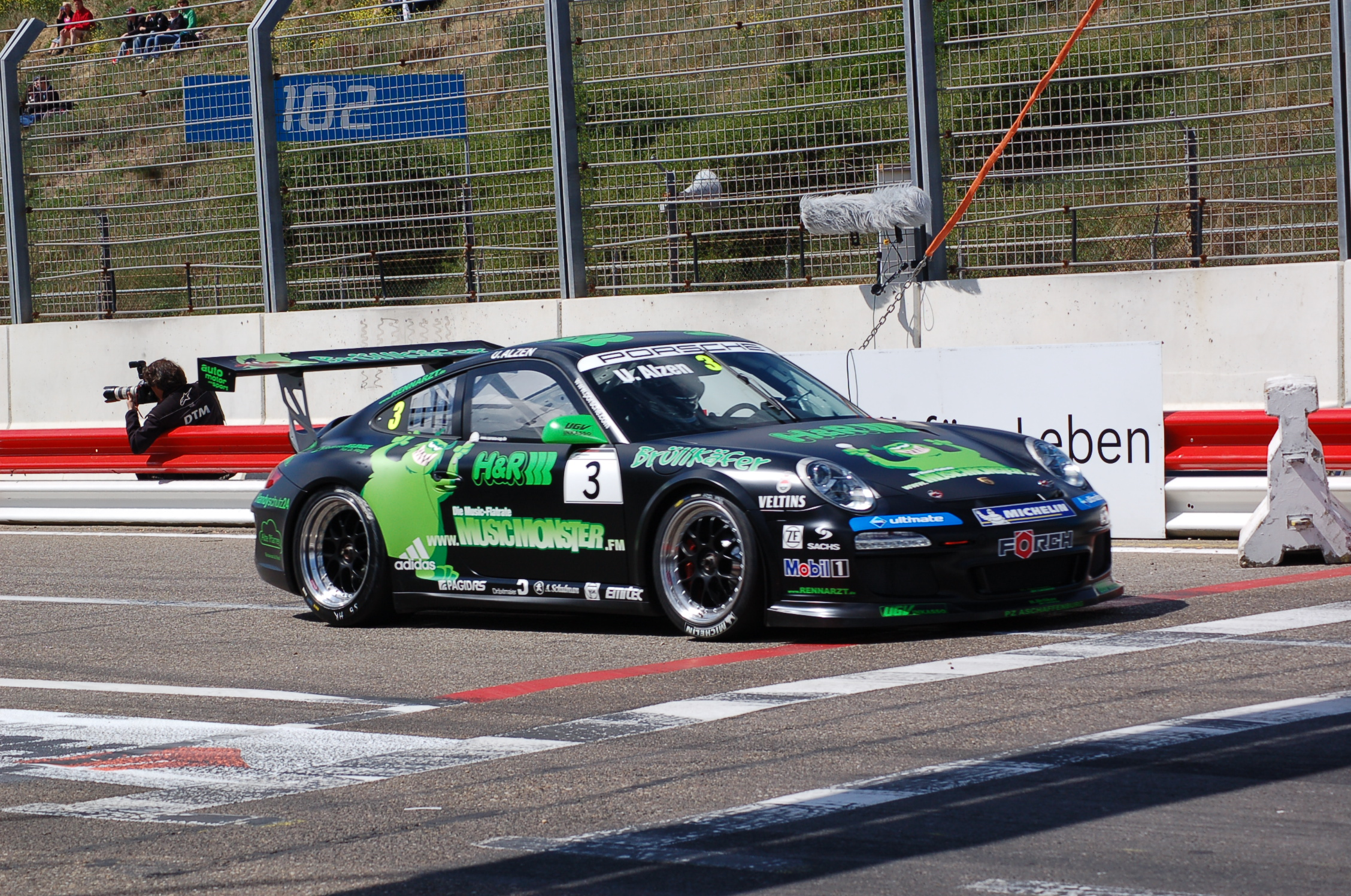 Uwe Alzen at Zandvoort 2011